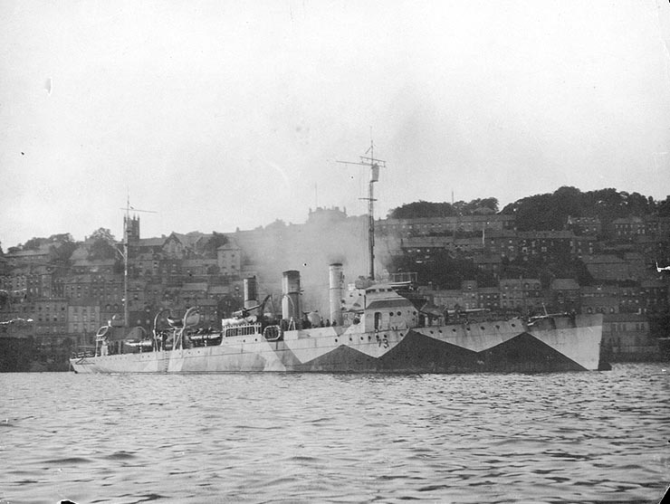 The U.S. Navy destroyer USS Stockton (DD-73) in Queenstown harbour, Ireland, circa 1918. Note her pattern camouflage.